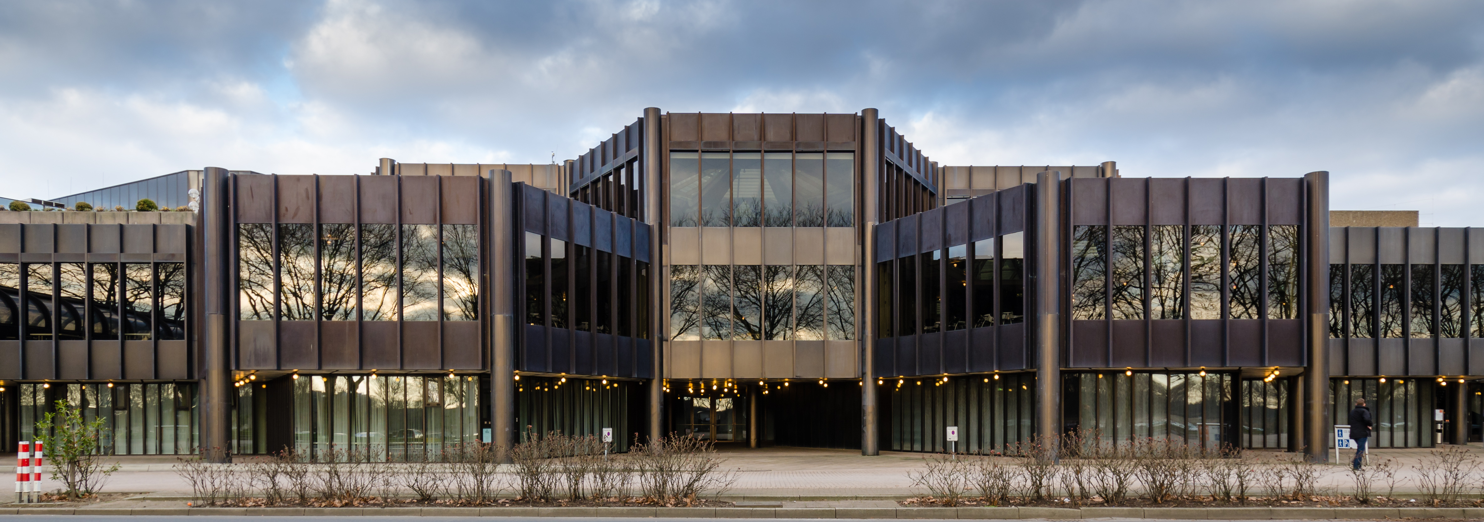 Congress Center Düsseldorf